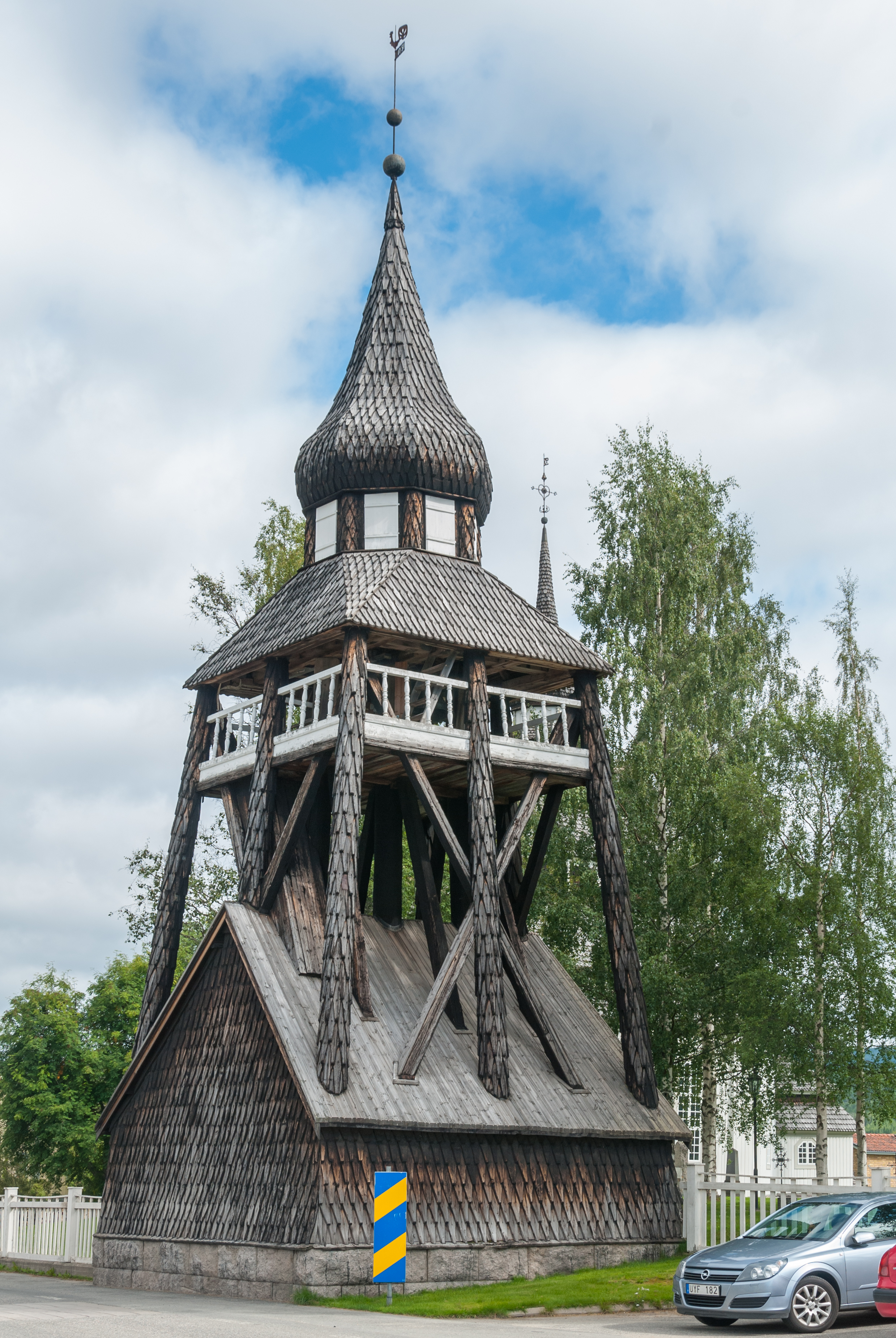 Vemdalens kyrka.